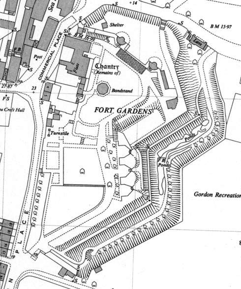 New Tavern Fort - extract from Ordnance Survey National Grid map TQ7076-TQ7176